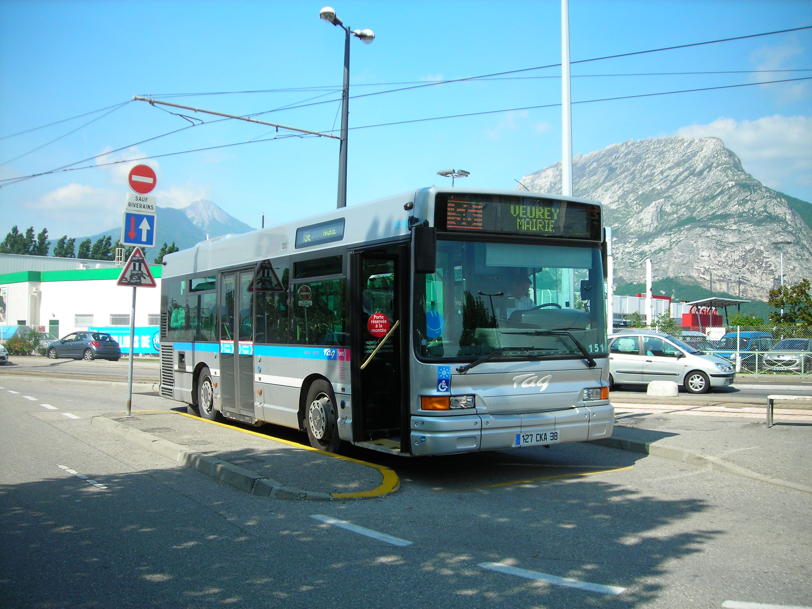 Grenoble Heuliez Access'bus GX117 on line 56 at stop Fontaine La Poya